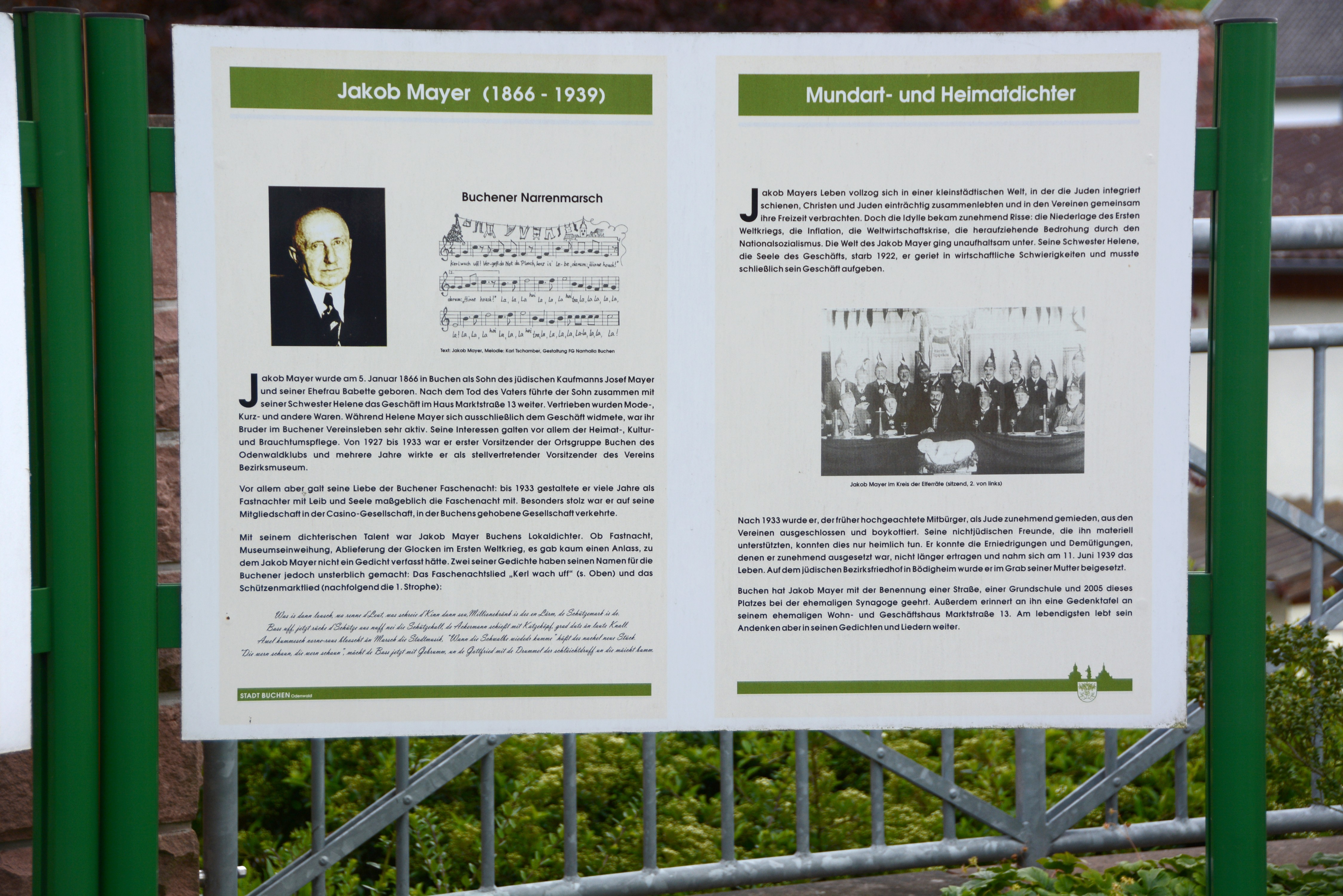 Jacob-Mayer memorial plaque in Buchen (Odenwald), Germany, however written "Jakob Mayer"